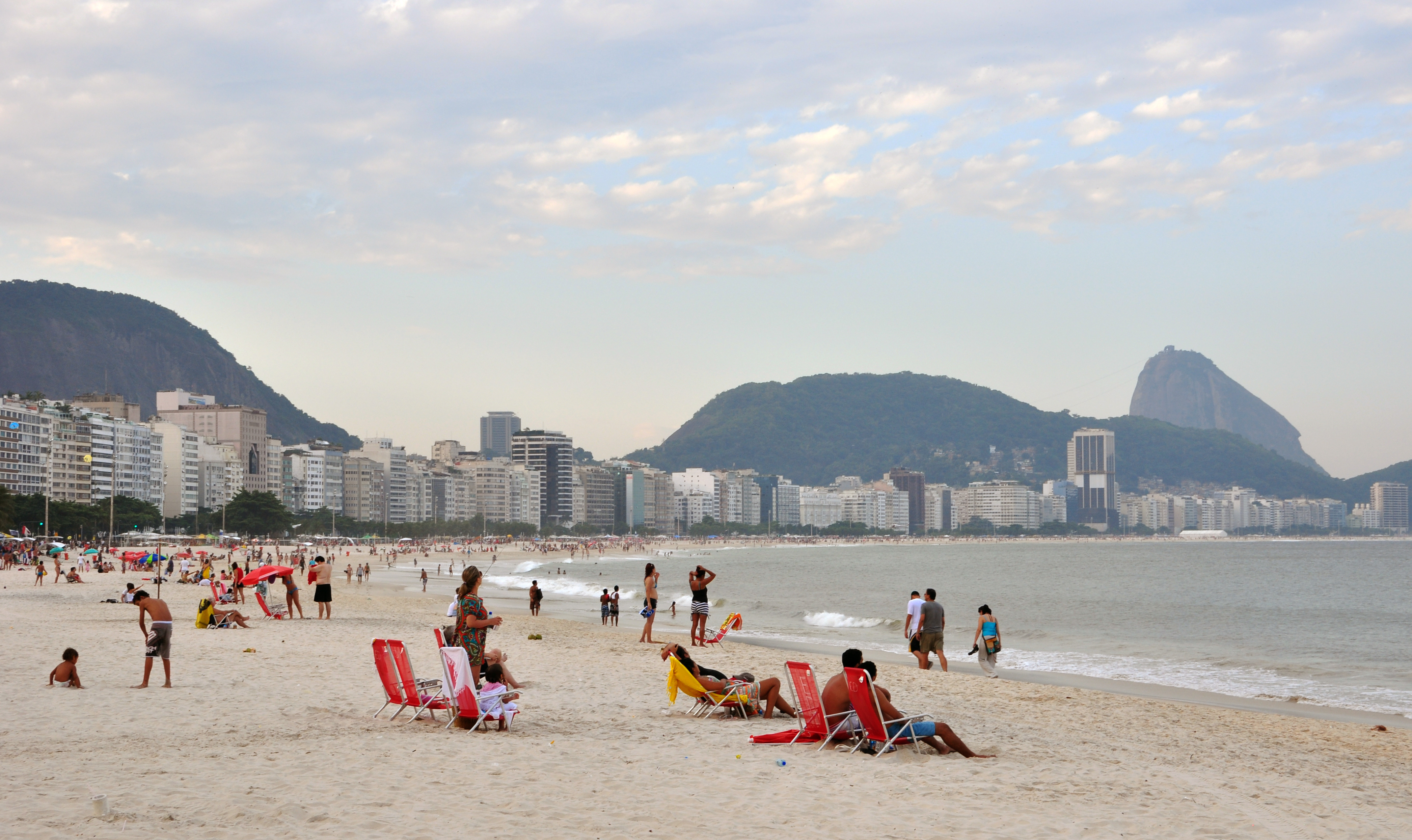 copacabana beach rio de janeiro brazil 2010